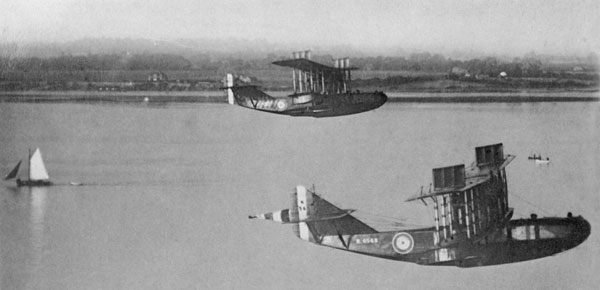 Photograph of Felixstowe F5 flying boats in flight